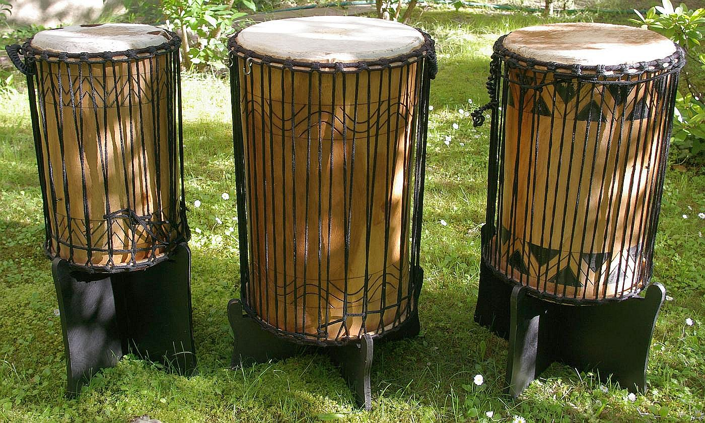 Usual set of three African bass drums (from left to right: Kenkeni, Dundun, Sangbang)